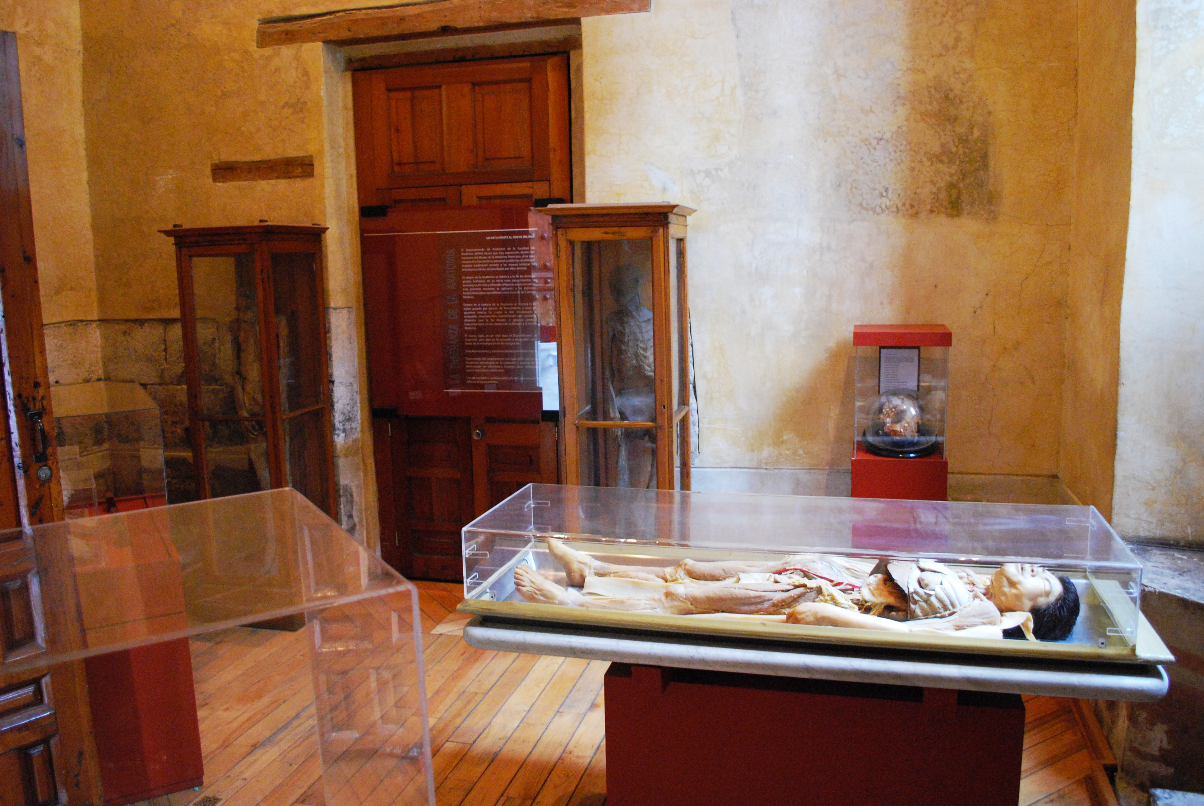 Room in the entrance hall of the Palace of Inquisition-Museum of Mexican Medicine with wax figure and real skeletons used for teaching medical students.